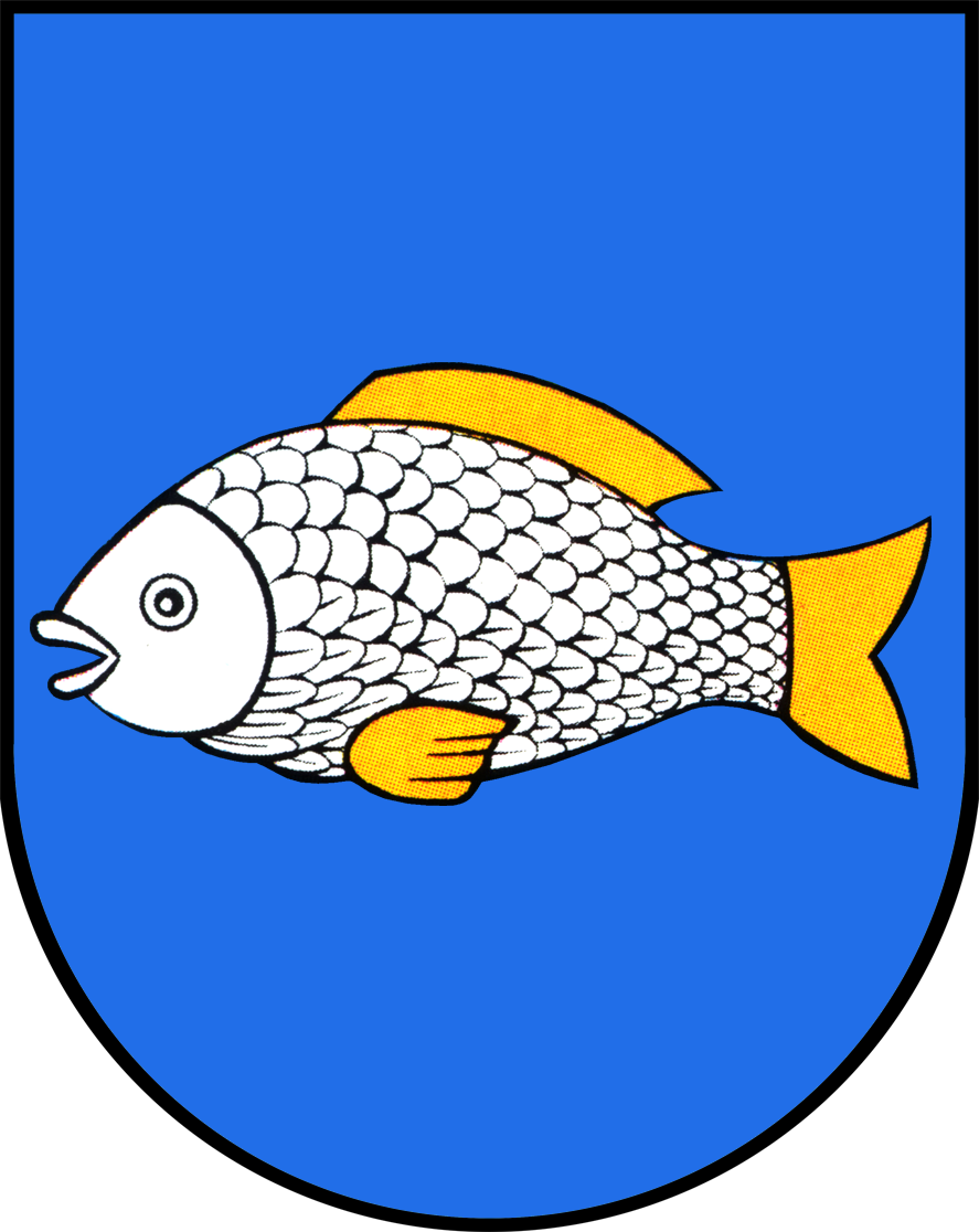 Coat of arms of Stralau.